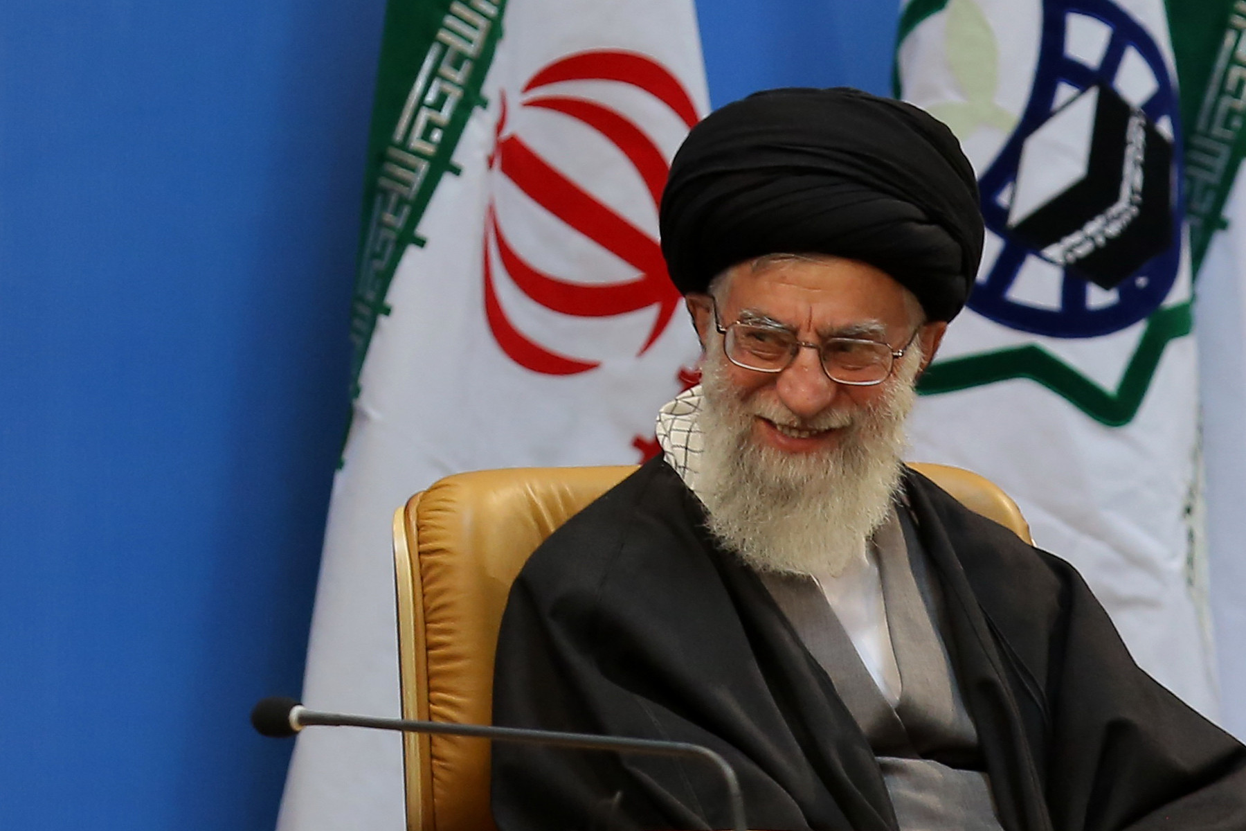 Ali Khamenei at World Conference of Ulama and Islamic Awakening